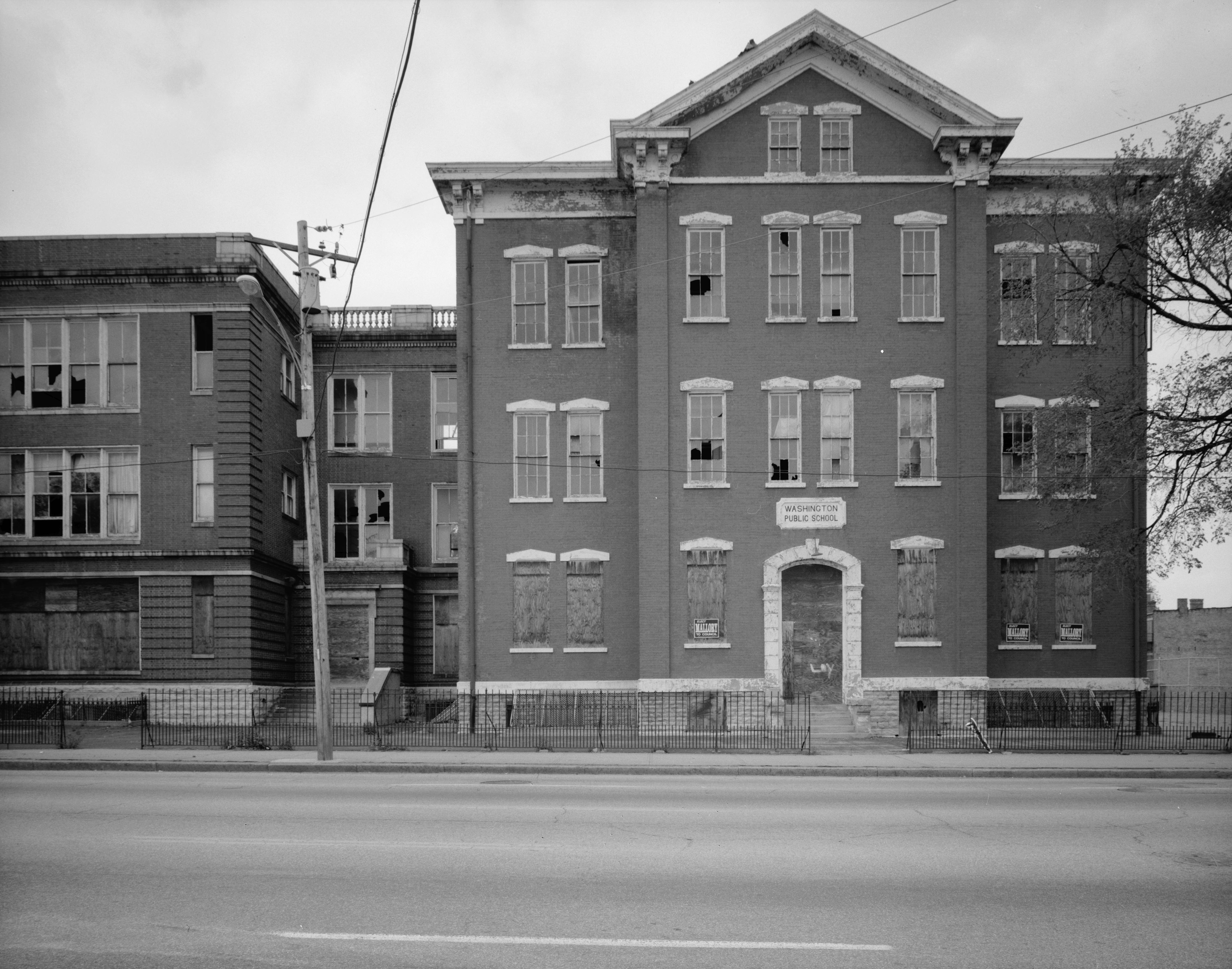 Front of the former Eighteenth District School (also known as the Camp Washington Elementary School), located at 1326 Hopple Street in Cincinnati, Ohio, United States. Built in 1882, it is listed on the National Register of Historic Places.